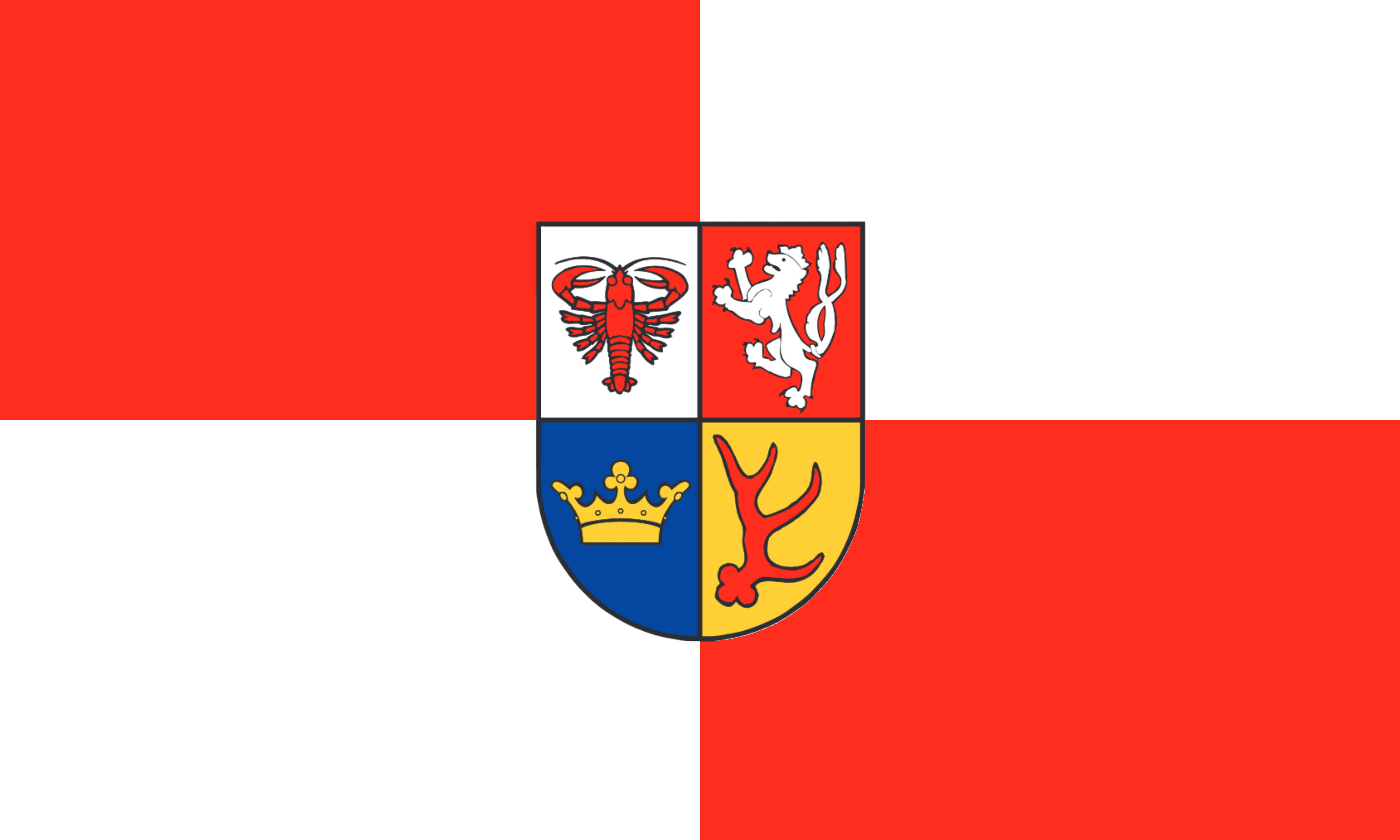 vertical display flag of the German district of Landkreis Spree-Neiße